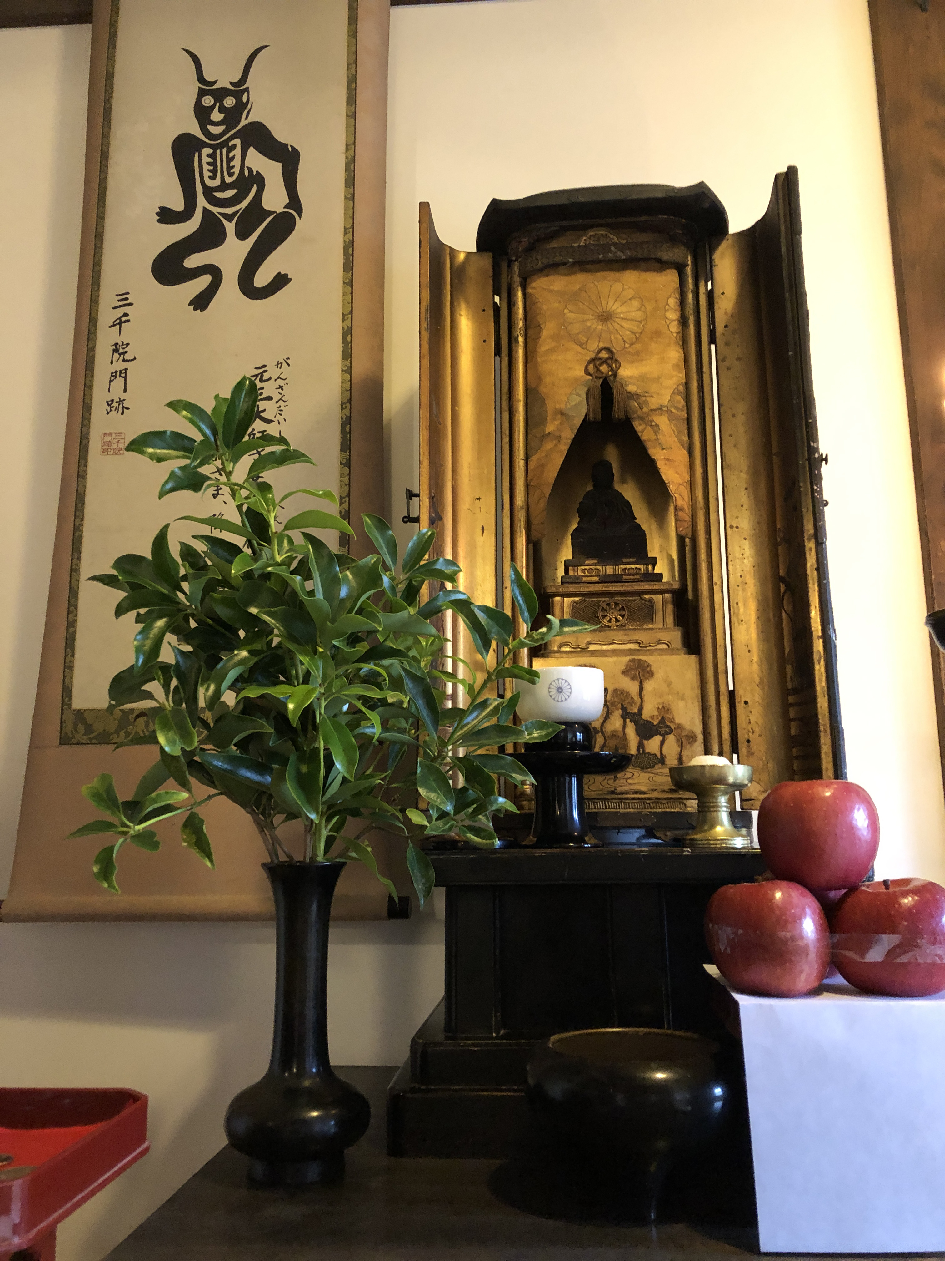 Statue of Ryōgen together with a scroll showing him as Tsuno-Daishi. Sansen-in Tempel in Ohara (Kyoto Prefecture, Japan)